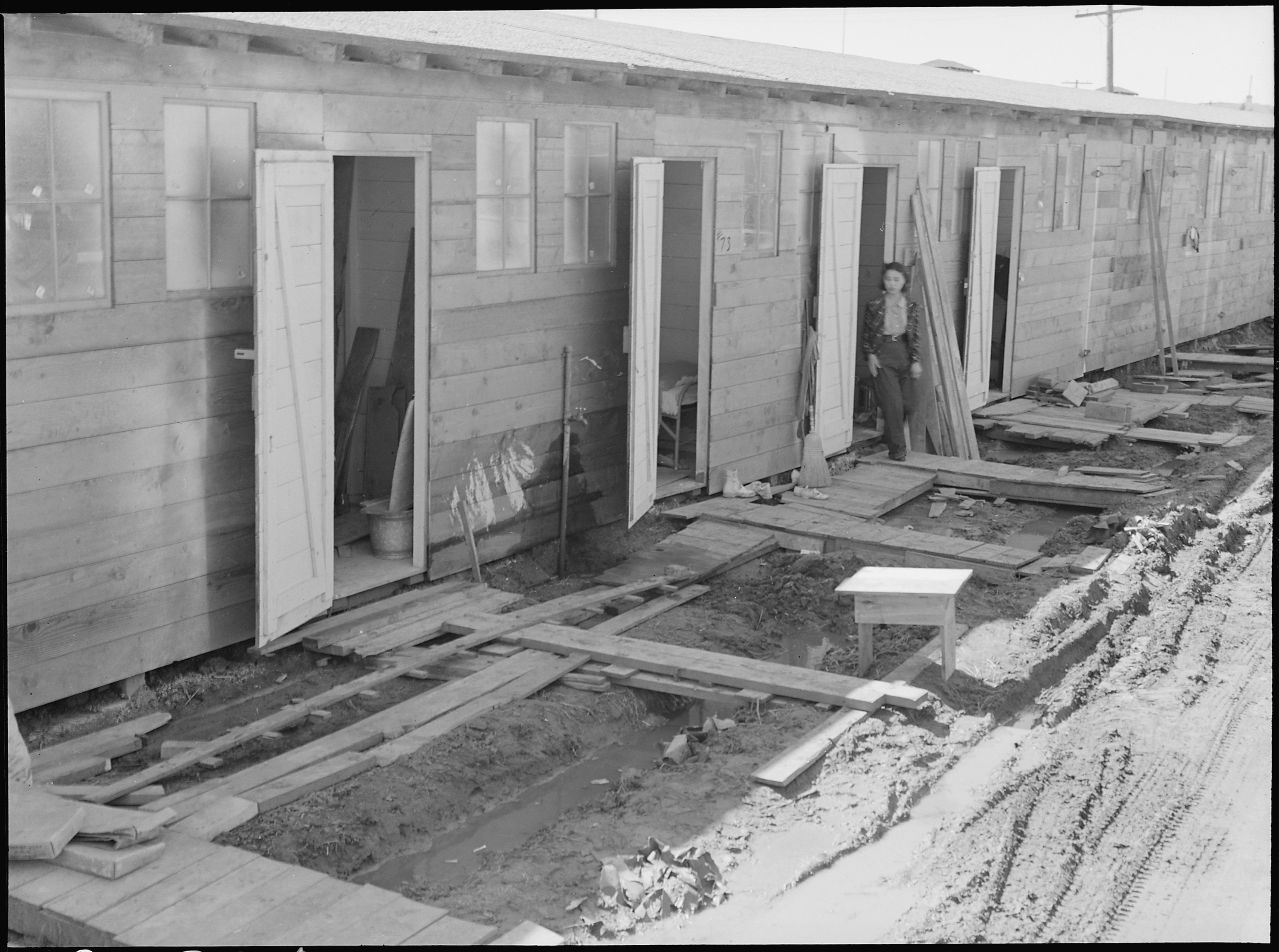 Scope and content: The full caption for this photograph reads: Tanforan Assembly center, San Bruno, California. Barracks for family living quarters. Each door enters into a family unit of two small rooms. Tanforan assembly center was opened two days before the photograph was made. On the first day there had been a heavy rain. When a family has arrived here, first step of evacuation is complete.